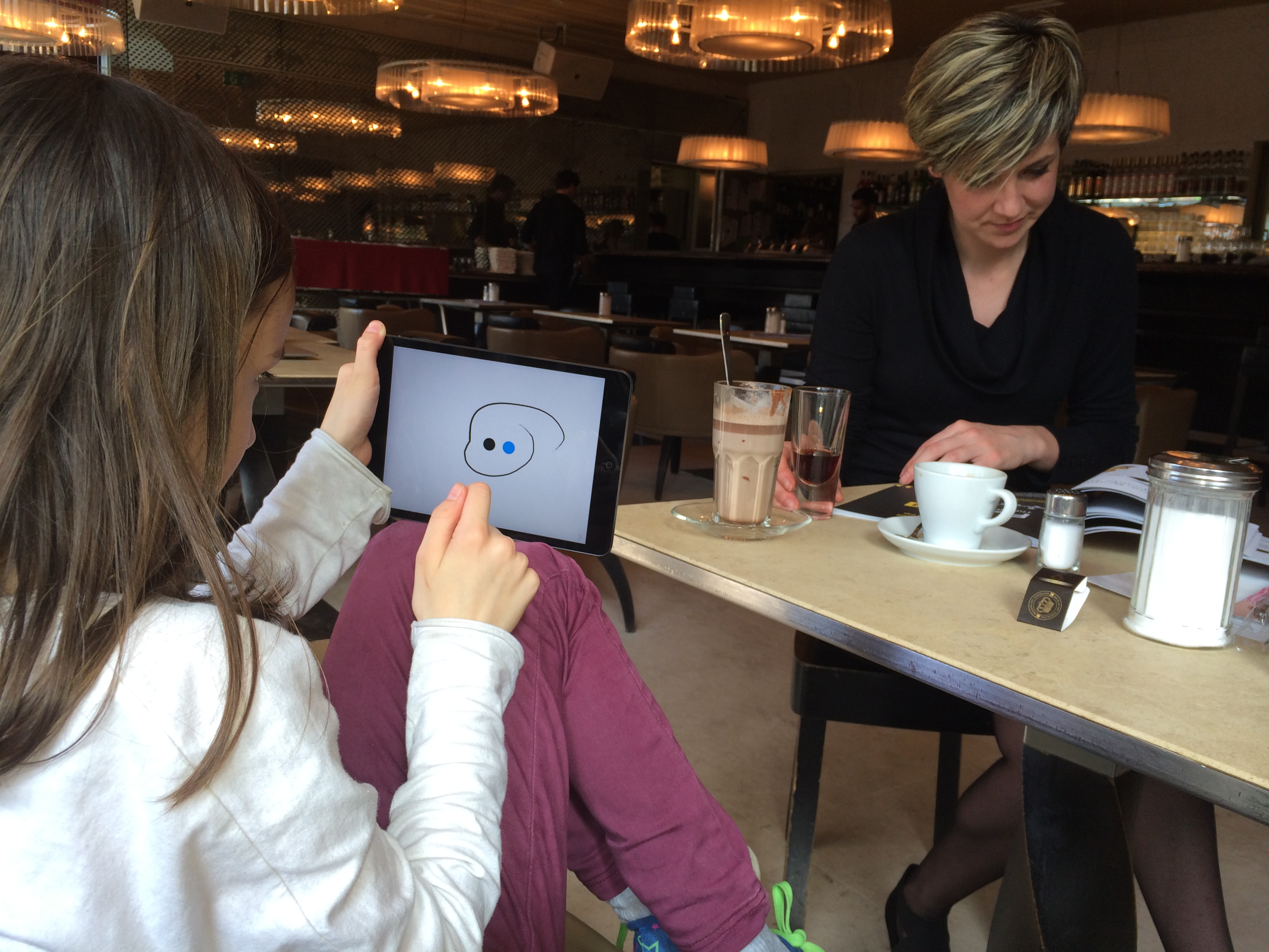 Blek at a café